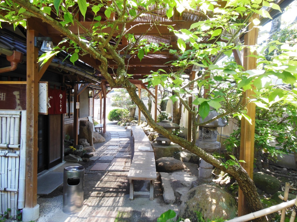 Kawatana Hot Springs